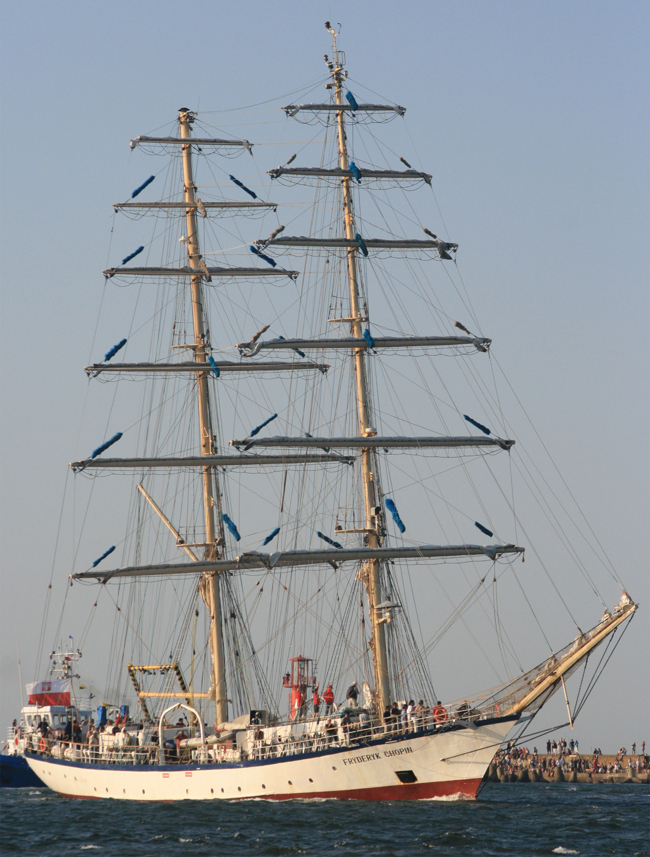 Fryderyk Chopin, The Tall Ships' Races, Świnoujście 2007